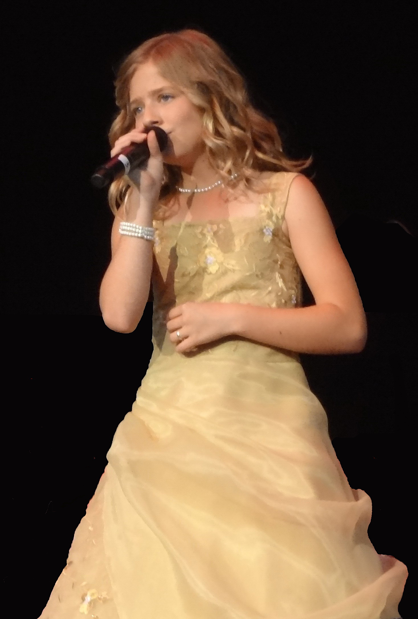 Photo of Jackie Evancho performing at her June 3, 2012 concert in Alpharetta, Georgia.